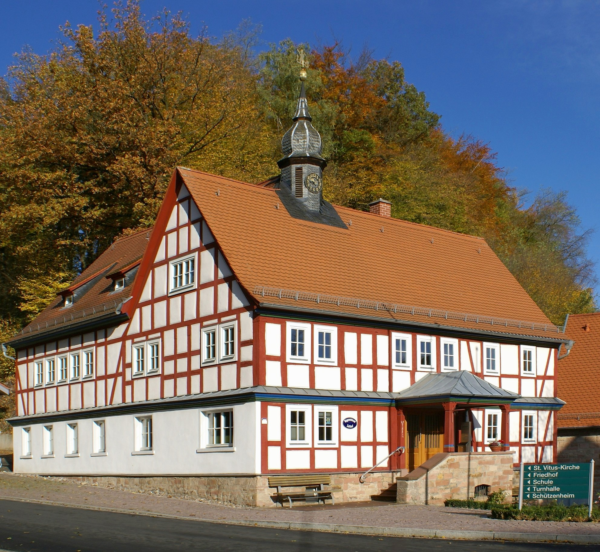 The town hall of the community Sailauf